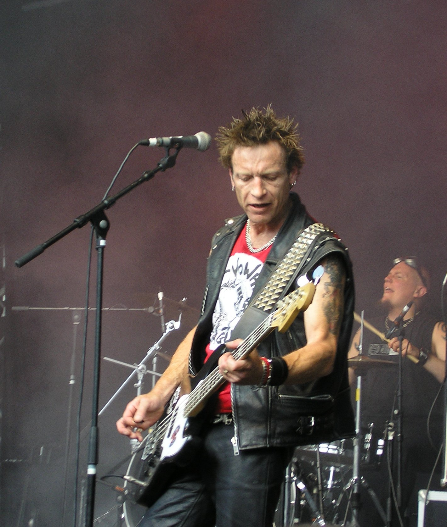 Anti-Nowhere League playing at Augustibuller 2007.